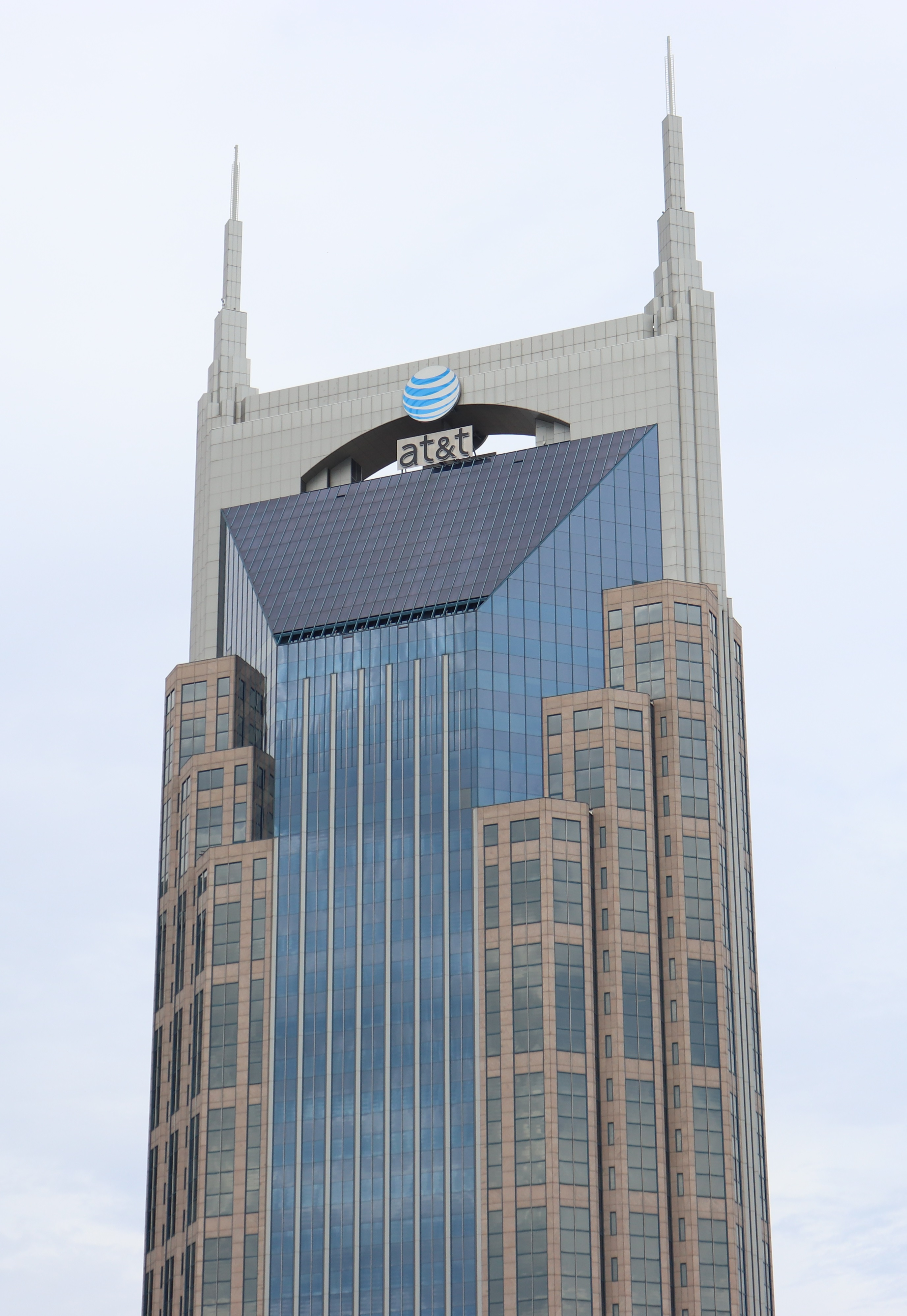 The famed "Batman Building" in Nashville, Tennessee.